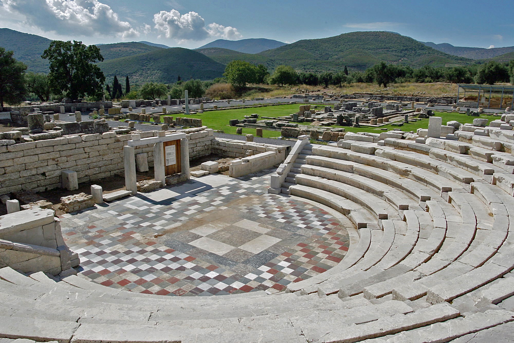 Messene, the Odeon, in the background the Agora with the Asklepieion can be seen